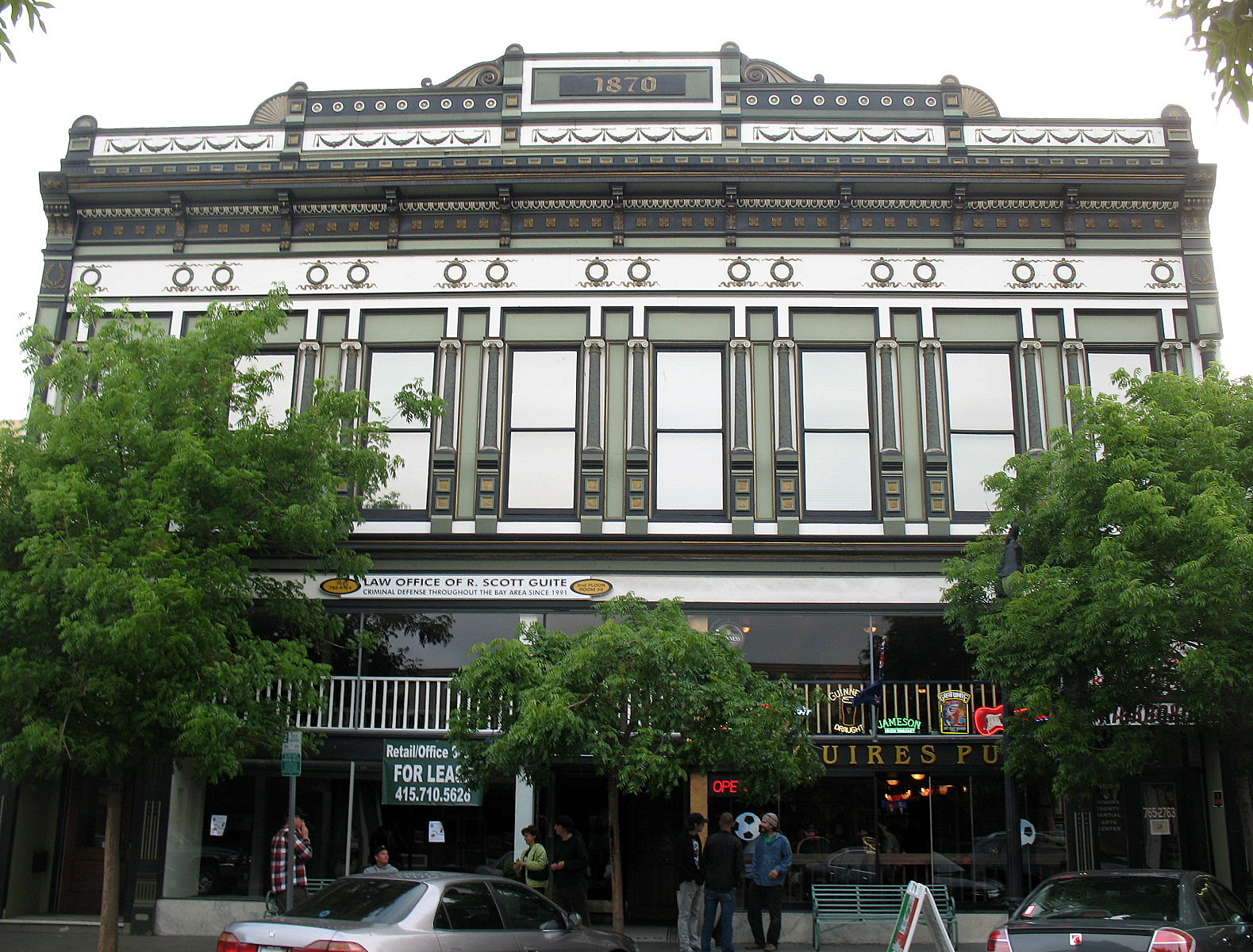 National Register of Historic Places listings in Sonoma County, California. Old Petaluma Opera House, 147-149 Kentucky St., Petaluma, CA. Photographed from the east side of Kentucky St. between East Washington St. and Western Ave.